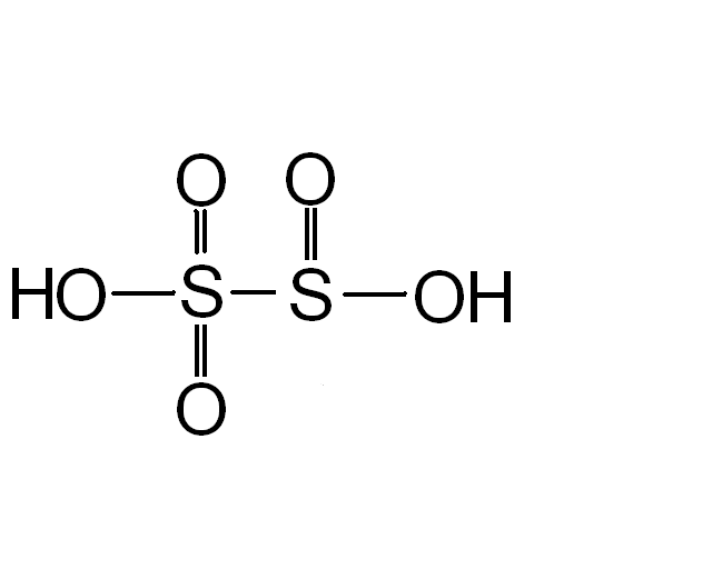 disulfurous acid showing bonding